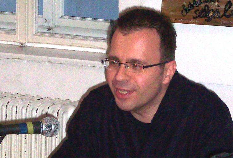 This photo of the Austrian writer Martin Dragosits has been taken by myself with my private camera at the public reading in the Amerlinghaus in Vienna, at the presentation of the new books of publisher Arovell, on May 21, 2010.